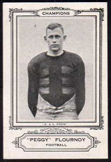 Charles Priestly "Peggy" Flournoy, All-American Tulane halfback.